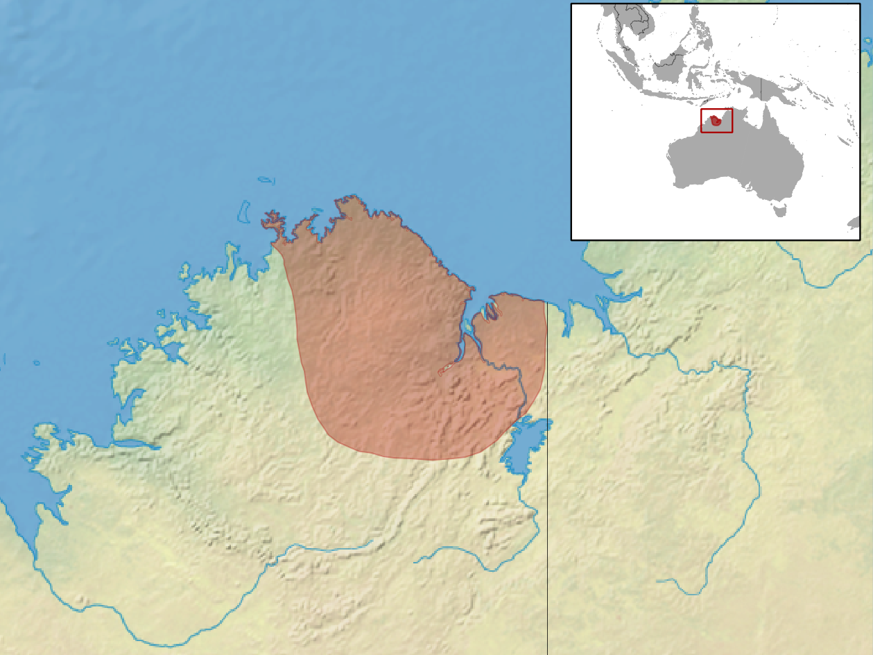 geographic distribution of Ctenotus burbidgei